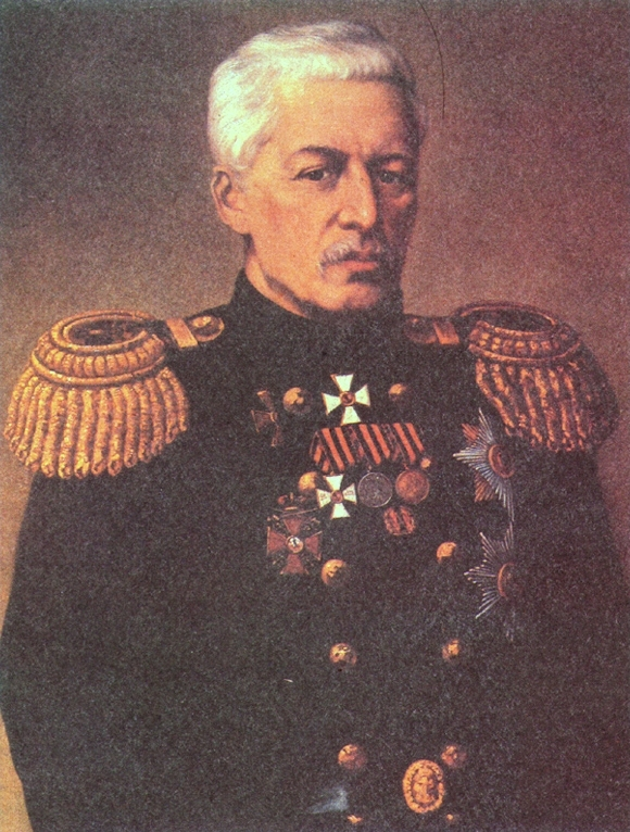 A portrait of Russian Admiral and explorer Vasily Zavoyko